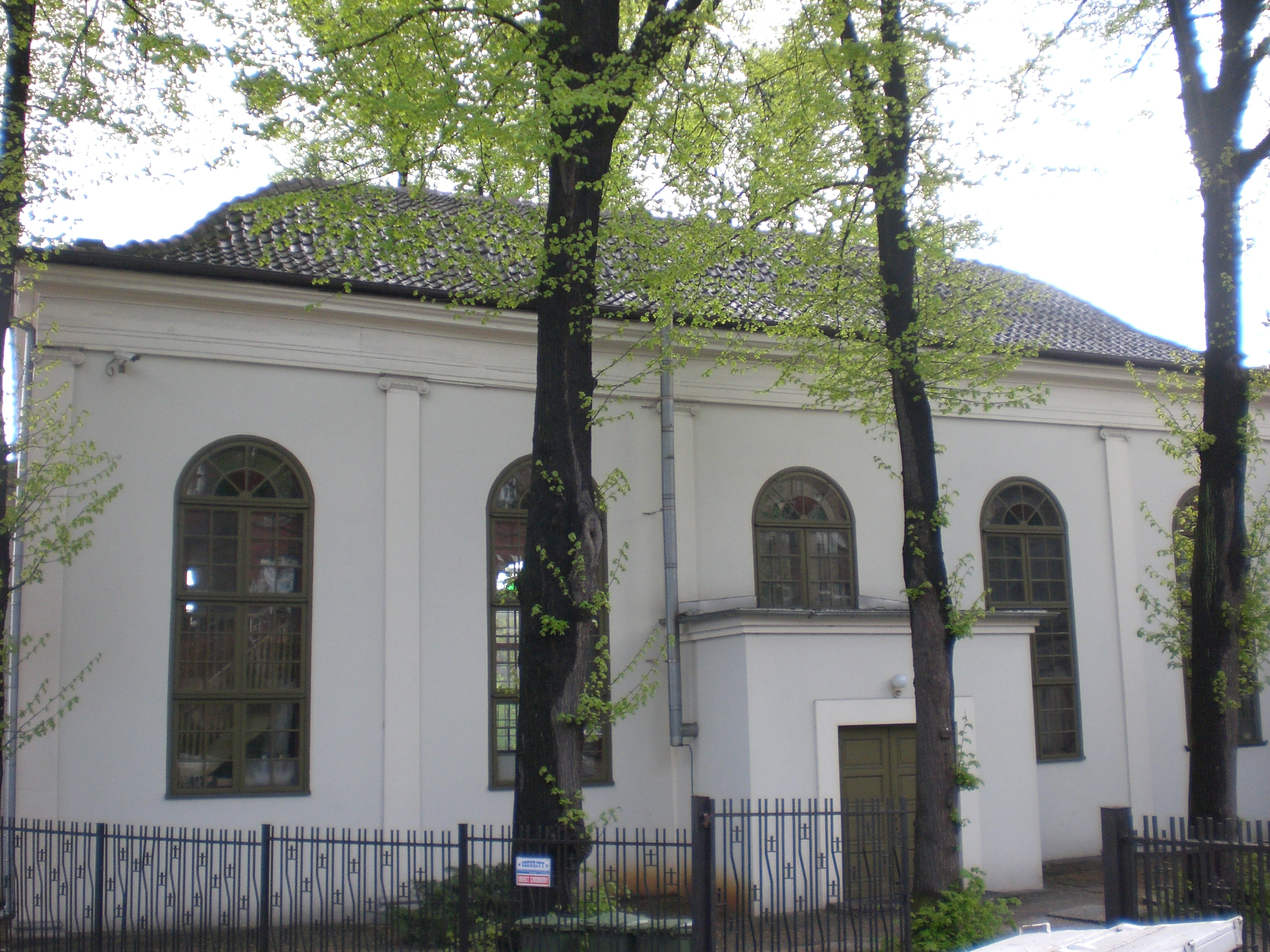 Ex-Mennonite, now Pentecostal Church in Gdańsk